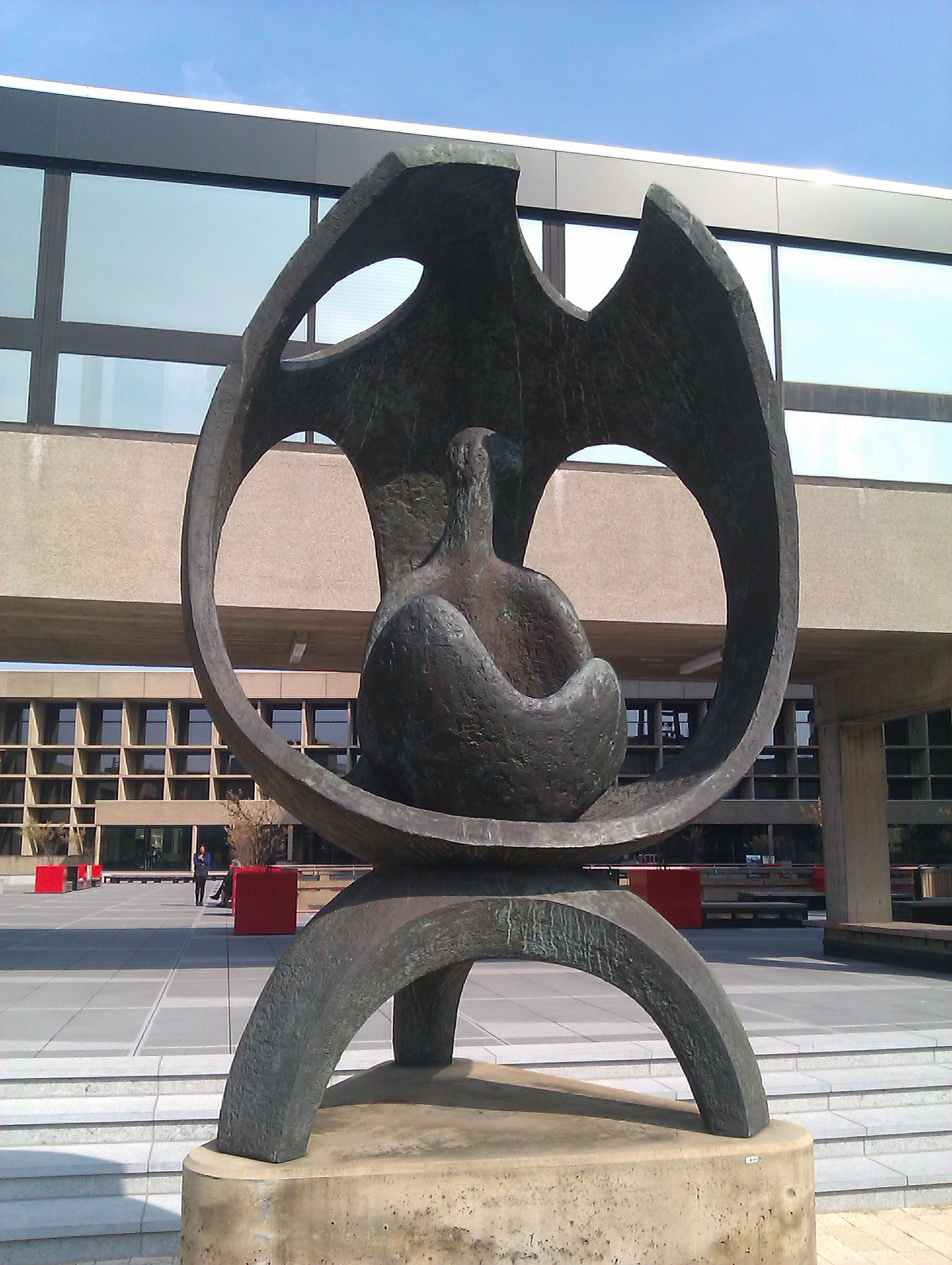 Frontview Lustrum sculpture by Ger van Iersel